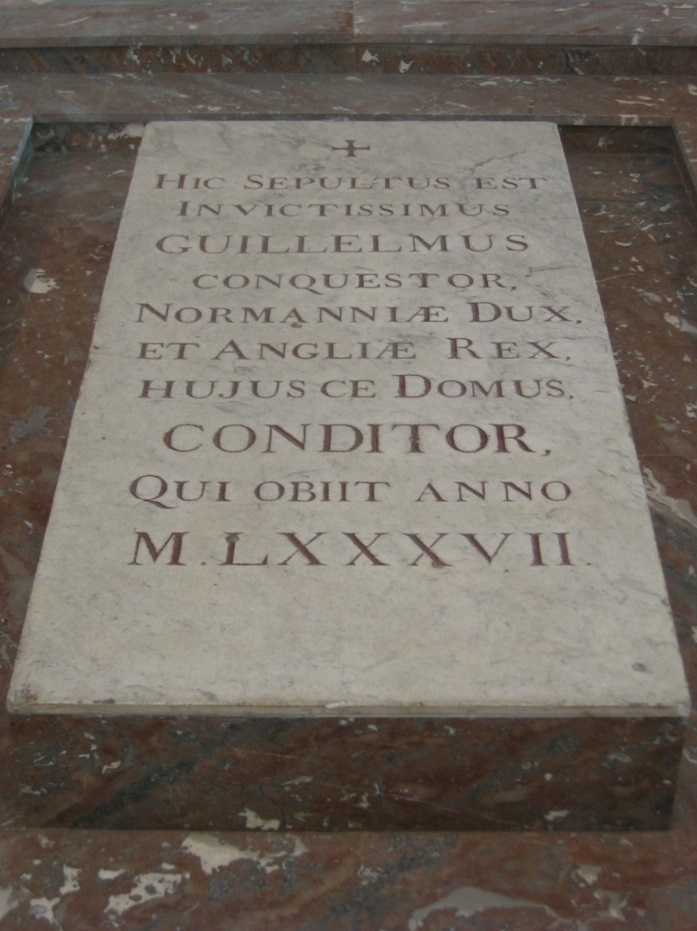 St Etienne abbey church, William the Conqueror's grave, chancel / Caen